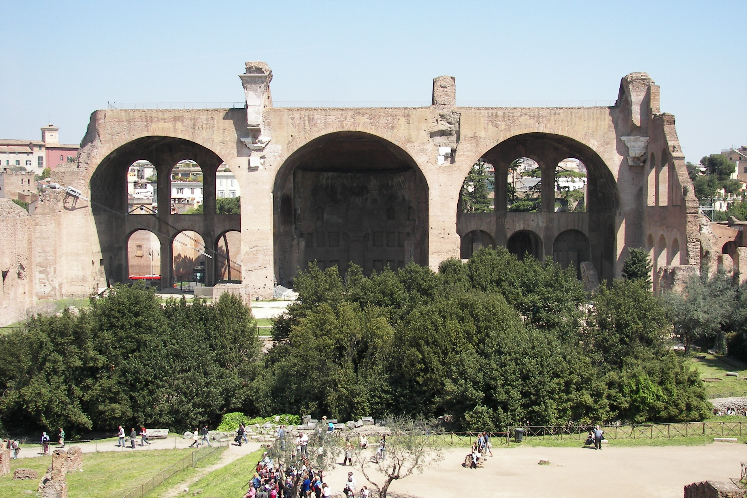 The Basilica of Maxentius and Constantine in the Roman Forum. This photograph was taken by Eva db on 8 April 2006.